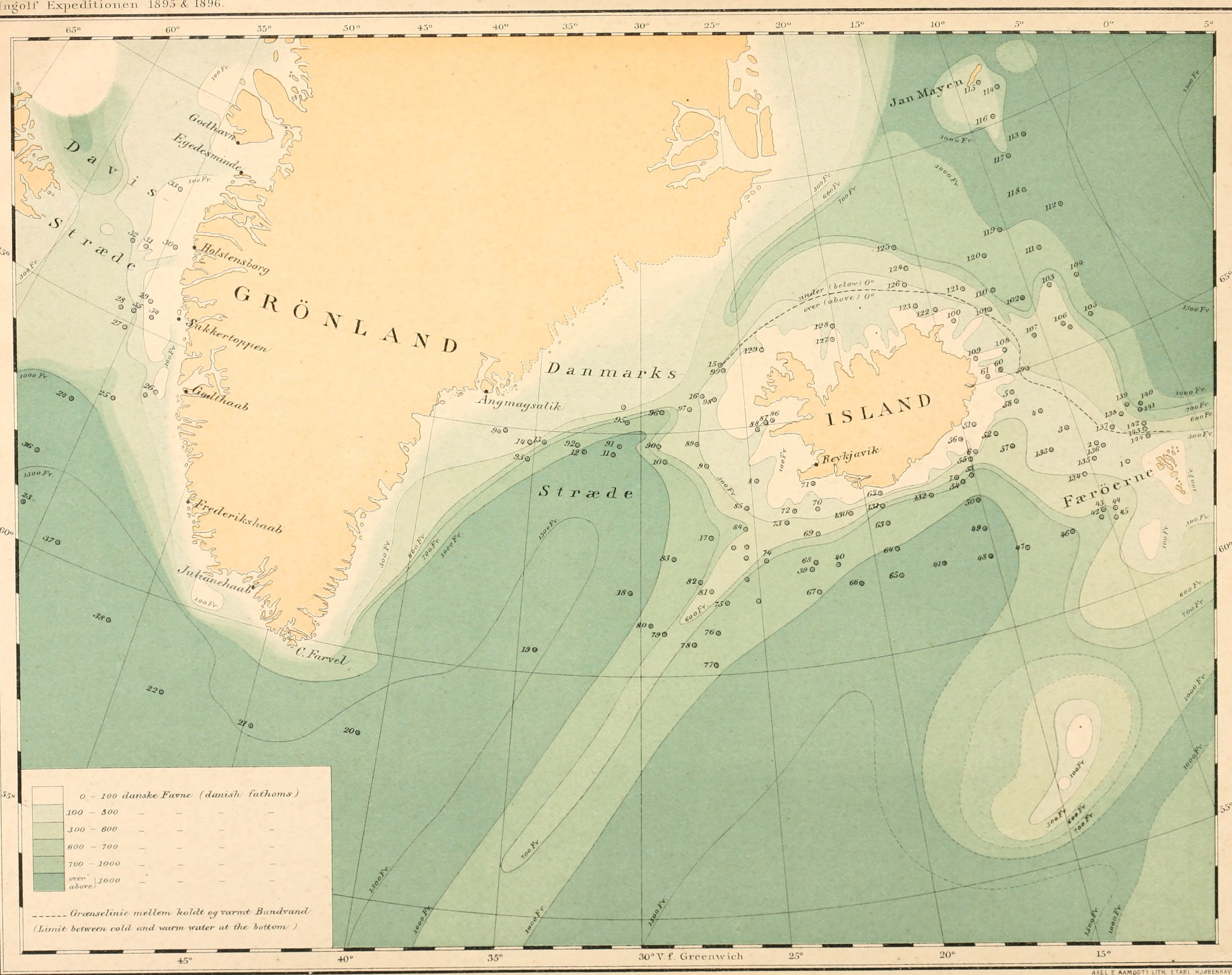 Title: The Danish Ingolf-Expedition Year: 1920 (1920s) Authors: Ingolf (Cruiser); Danish Ingolf-Expedition (1895-1896) Subjects: Scientific expeditions; Arctic Ocean Publisher: Copenhagen : H. Hagerup Text Appearing Before Image: ' Text Appearing After Image: '